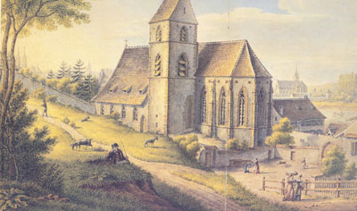 St alban church in Basel (Switzerland) 1857